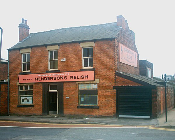 Henderson's (Sheffield) Ltd factory, Sheffield.